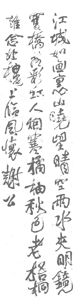 Calligraphy of Fu Shan